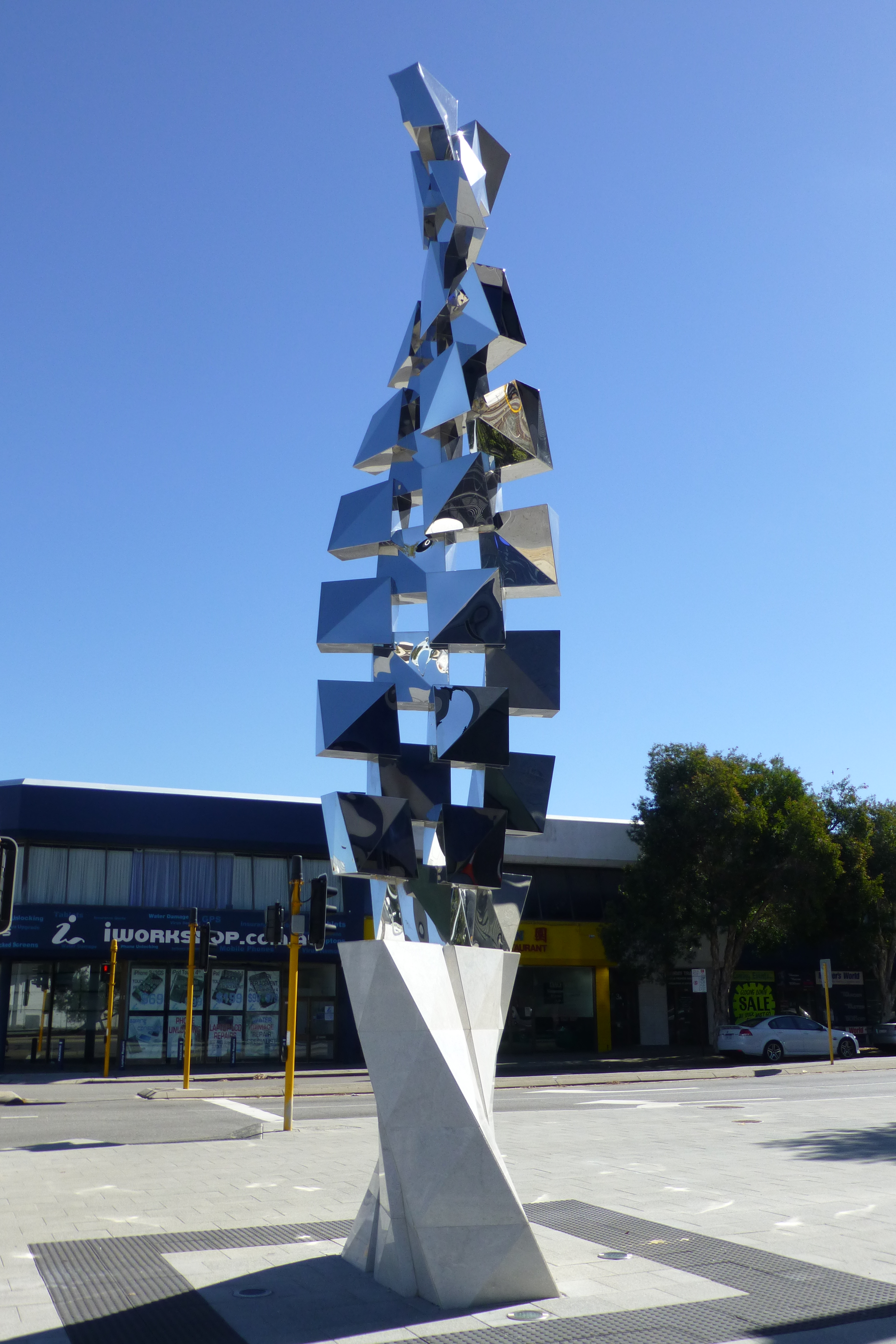 Spiral, 2012 by Geoffrey Drake-Brockman at Perth Police Station, Cnr Rowe and Fitzgerald Streets, Northbridge, Western Australia. 9m tall sculpture in 316 stainless steel and white granite.